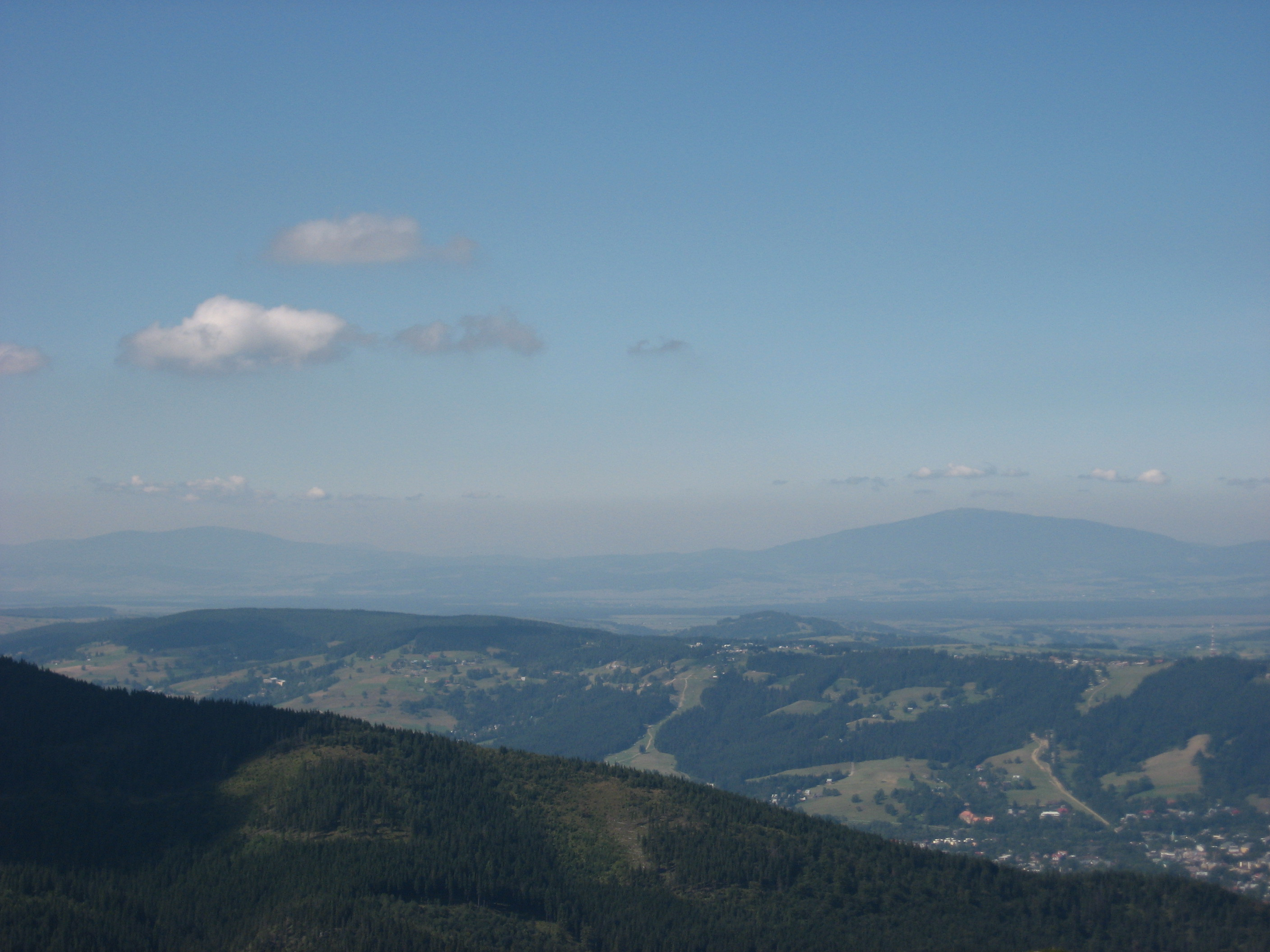 In the background: Pilsko (in the left) and Babia Góra (in the right) seen from Tatra Mountains.